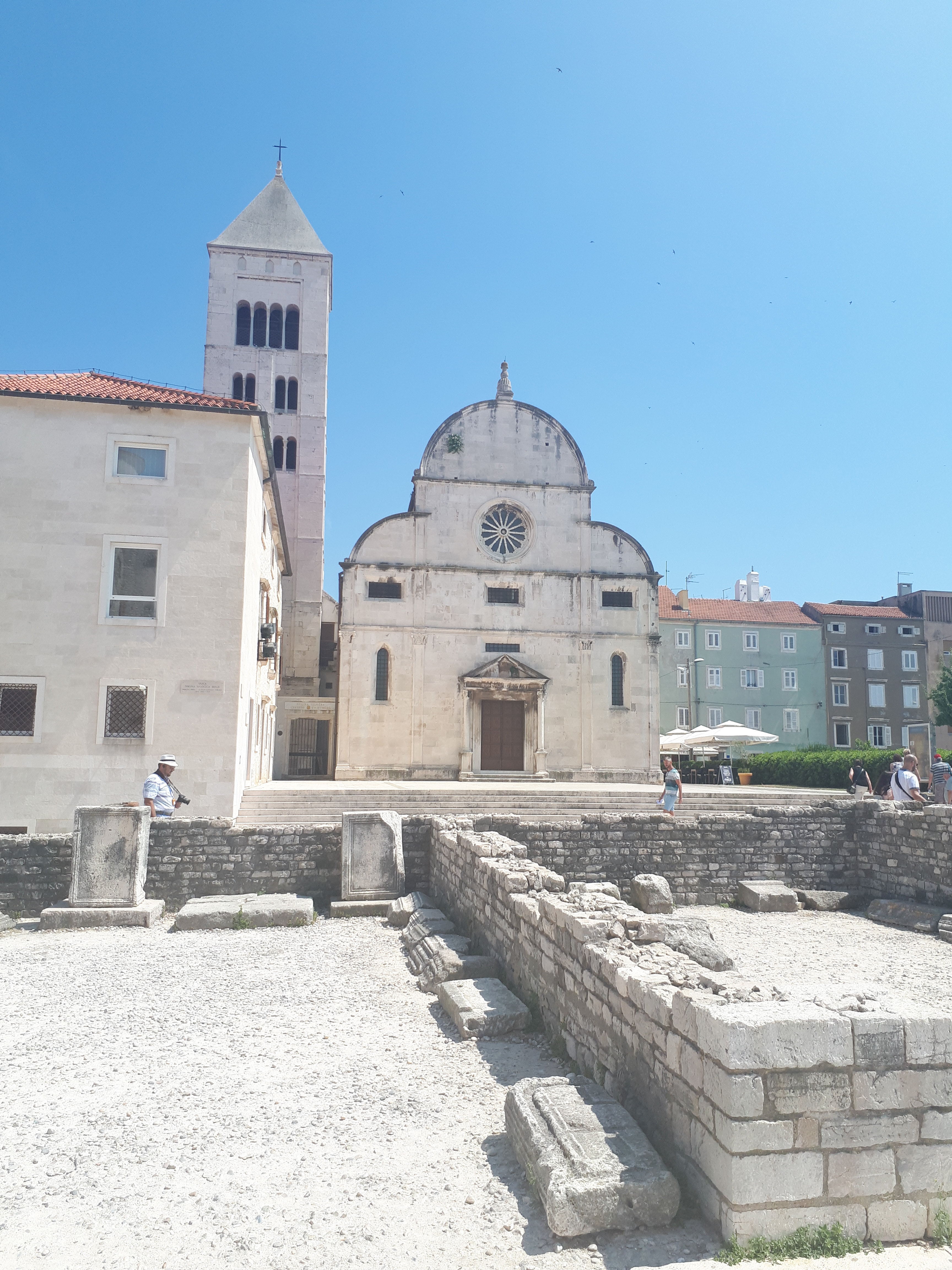 Church of St. Mary is a benedictine monastery located in Zadar, Croatia. It was founded in 1066 on the eastern side of the old Roman forum.